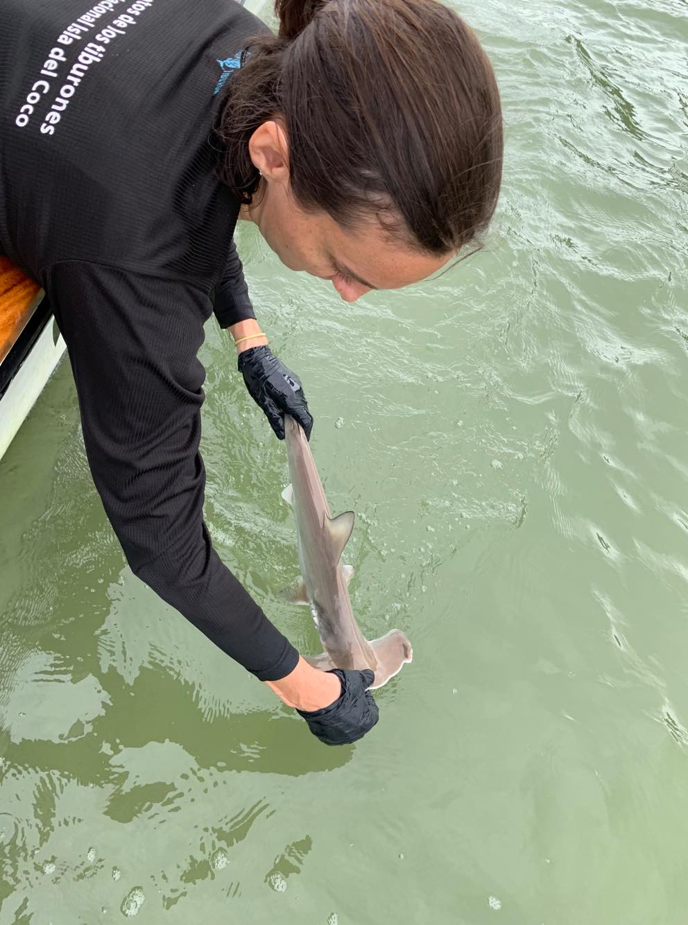 Illena Zanella, working alongside the team at Misión Tiburón, is gently releasing a scalloped hammerhead shark back into the calm waters of Golfo Dulce. This shark is a juvenile.